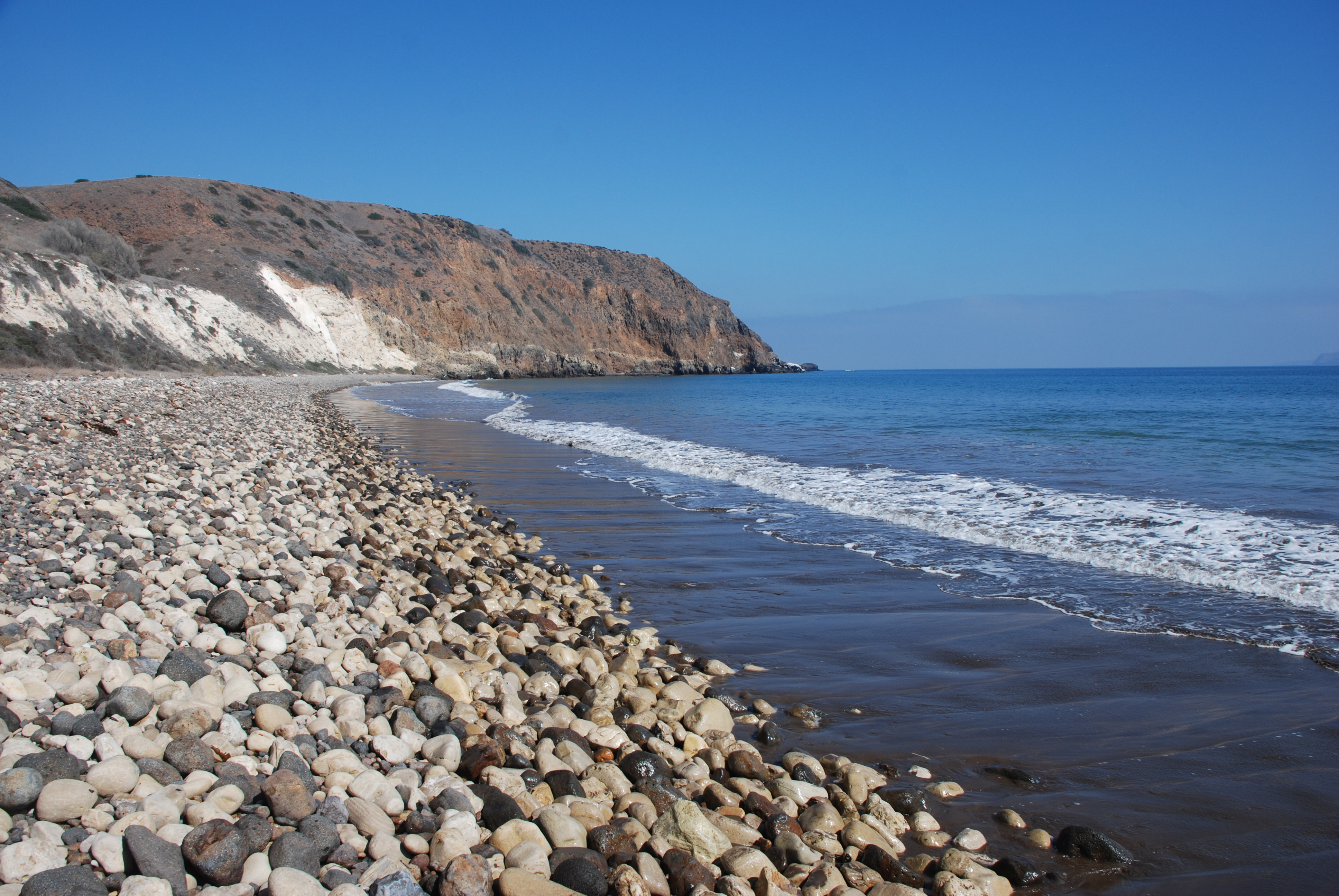 Smugglers Cove, view towards East, Santa Cruz Island, California, USA